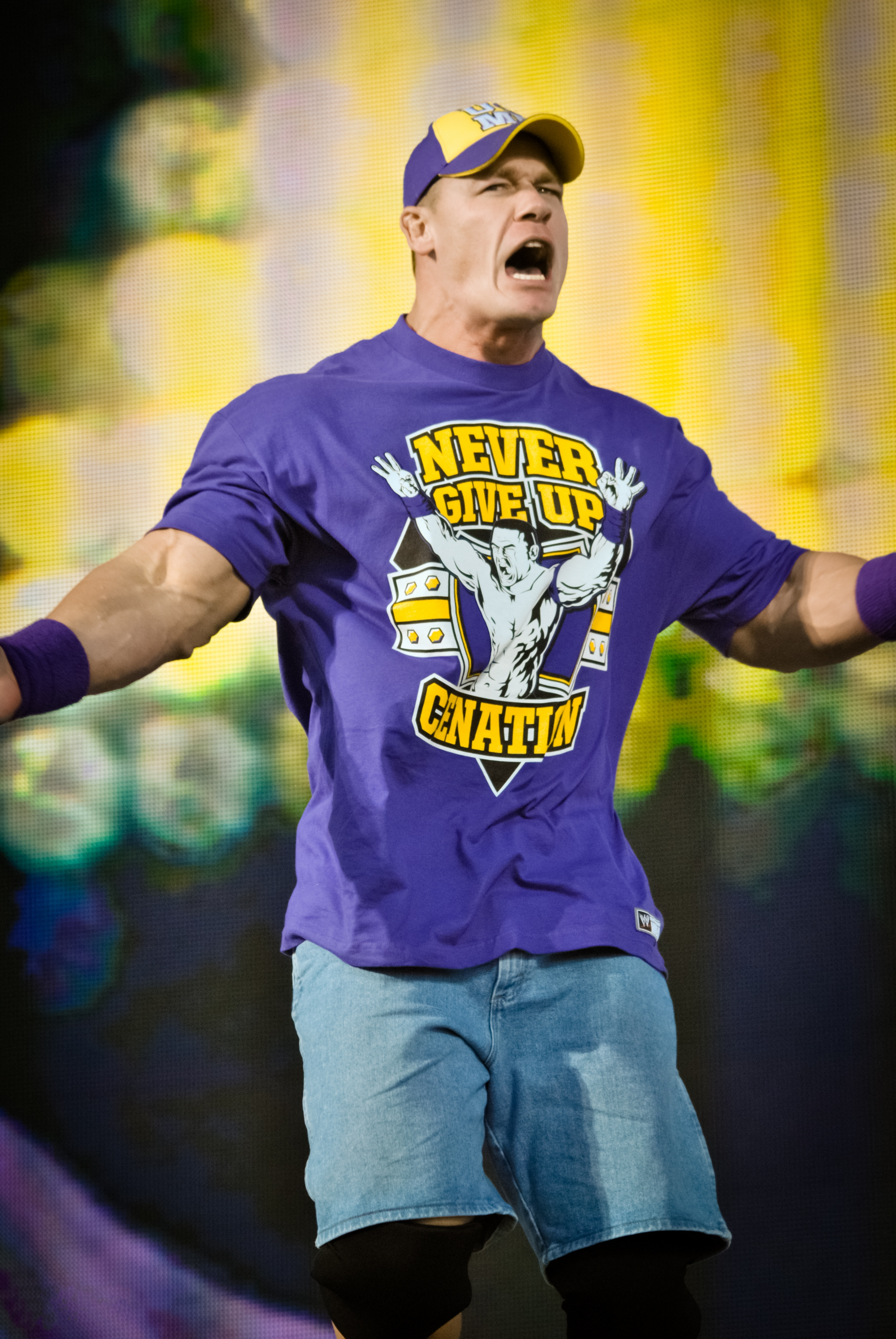 John Cena at WWE's Tribute to the Troops event on December 11, 2010 in Fort Hood, Texas.